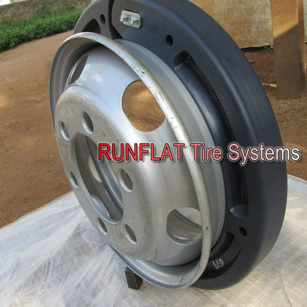 Armored Toyota Coaster Runflat Inserts manufactured by RUNFLAT Tire Systems, Hyderabad, India.